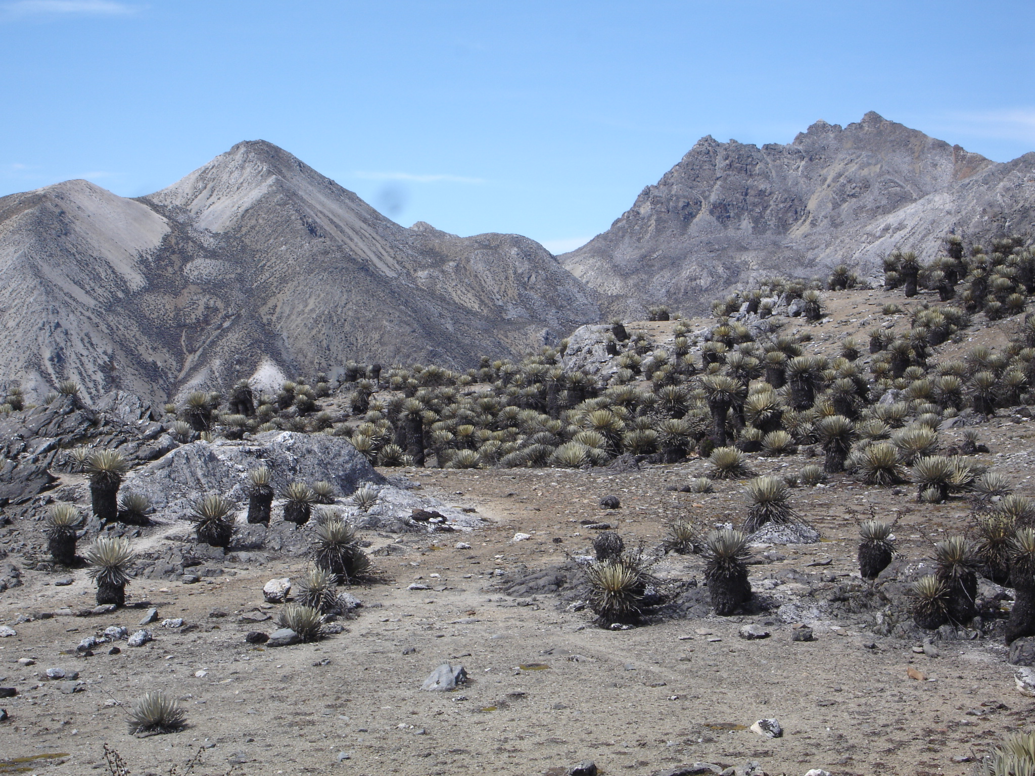 Author Gabriel París . Picture taken in Páramo de la Culata on december 21st 2006.